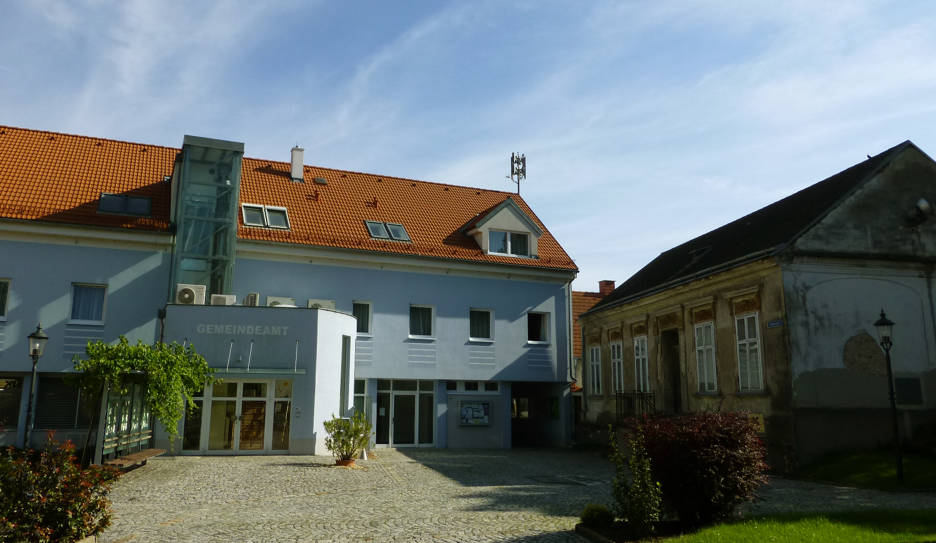 Town hall of Grosskrut, District Mistelbach, Lower Austria.